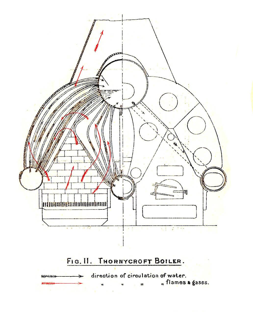 Thornycroft marine boiler A marine water-tube boiler of the Thornycroft design. End-section view. Scans from 'Stokers' Manual 1912', the Royal Navy's standard training handbook, "for engine-room ratings not entitled to the steam manuals and seamen under training in mechanical and stokehold work". See other images from this source in Scans from 'Stokers' Manual 1912'